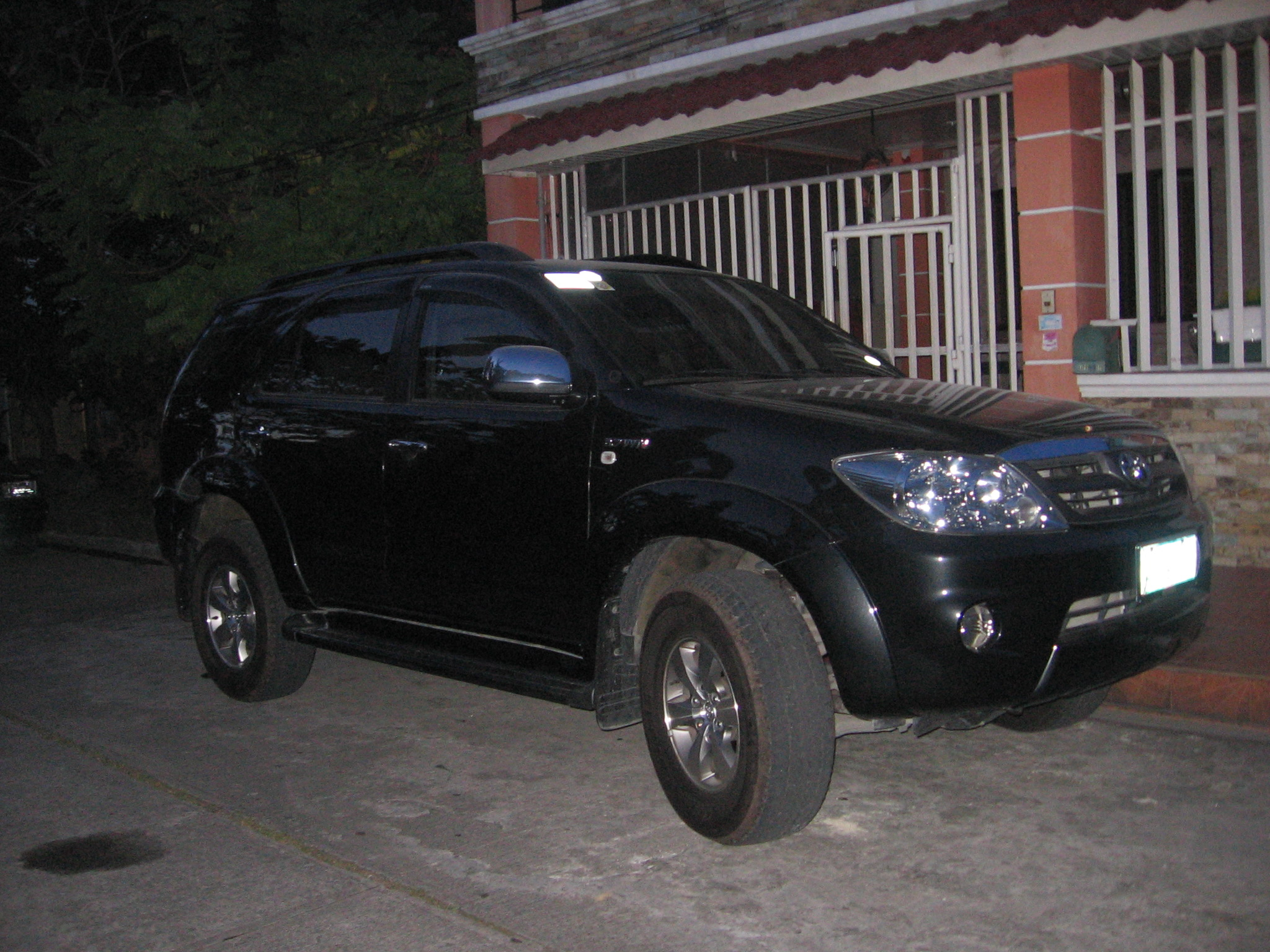 Toyota Fortuner in Cainta Rizal